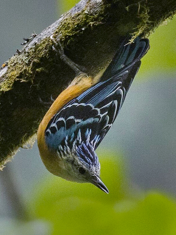 Beautiful Nuthatch - Eaglenest - India_FJ0A0694-Modifica-2